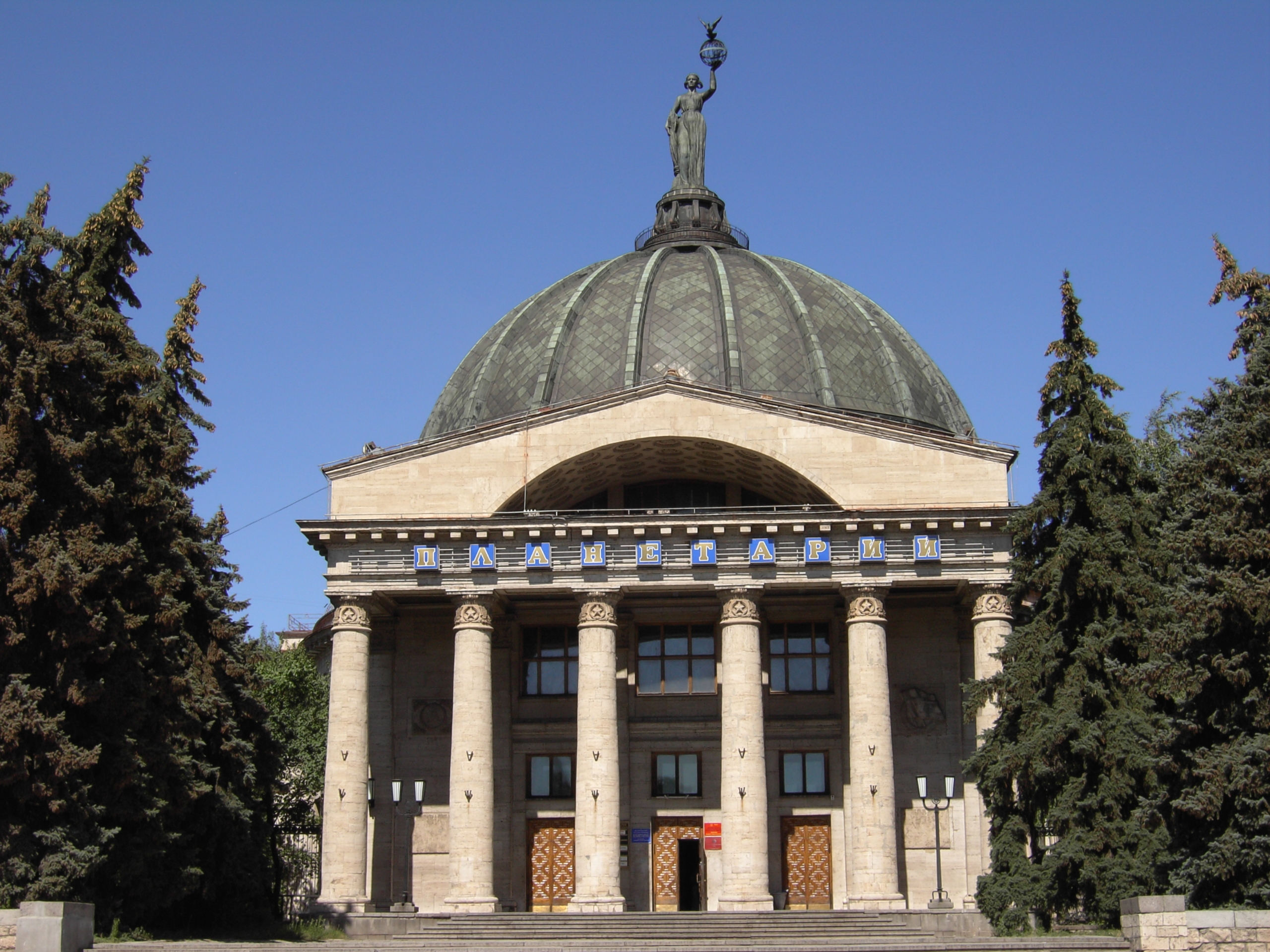 Volgograd Planetarium